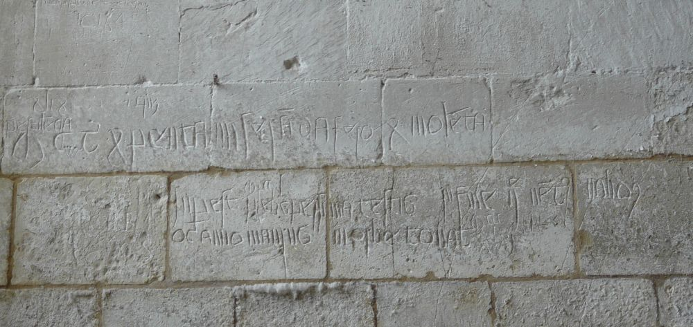 Medieval graffiti in the Church of St Mary the Virgin, Ashwell